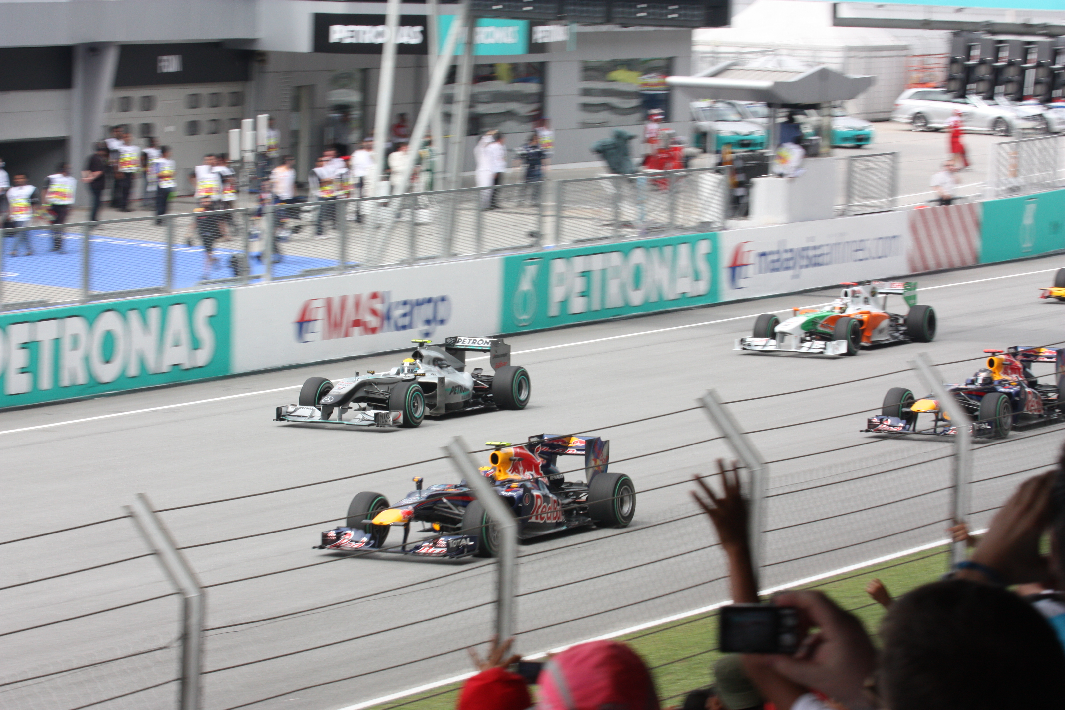 Divers just after starting the race